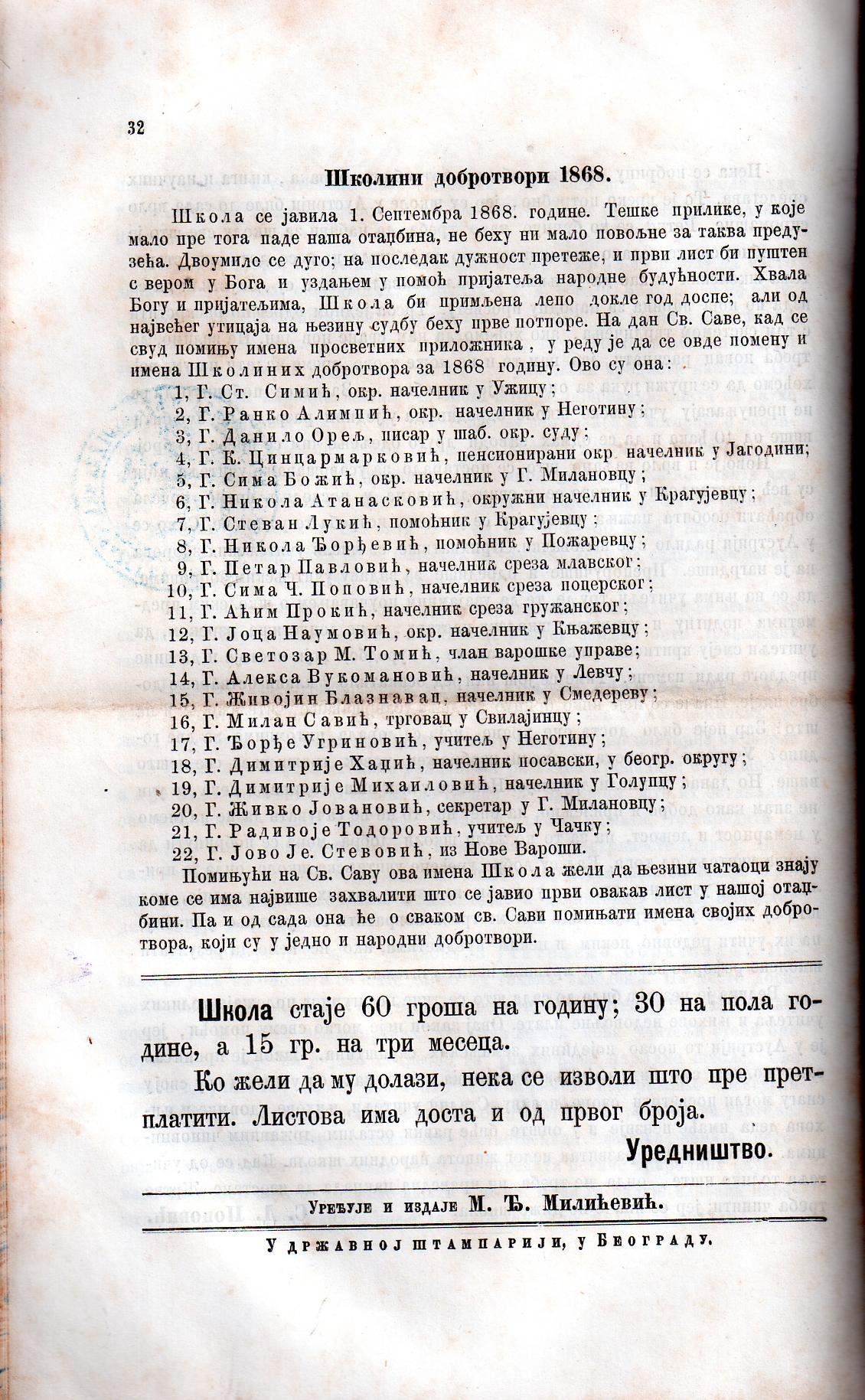 Škola magazine, number 2, page 32, 10. January 1869, Belgrade, Serbia Srpski (latinica): Škola časopis, Školski dobrotvori 1868, broj 2, str. 32, 10. januar 1869, Beograd, Srbija